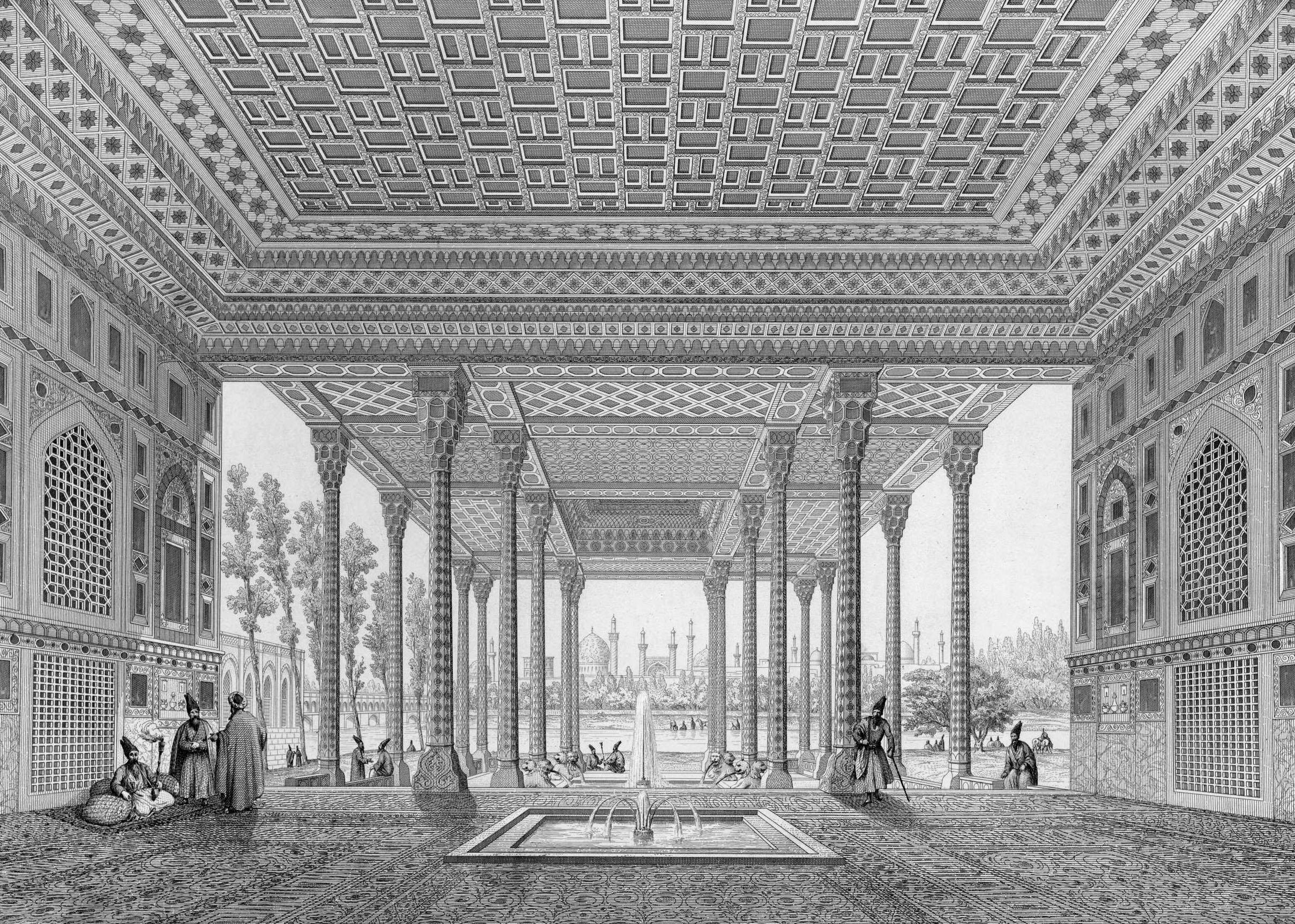 Pavillon of Aynekhane (House of mirrors), interior view perspective